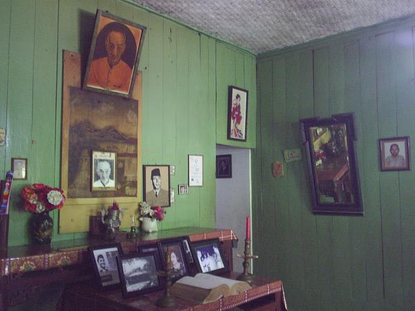 The house where Soekarno was kidnapped in Rengasdengklok